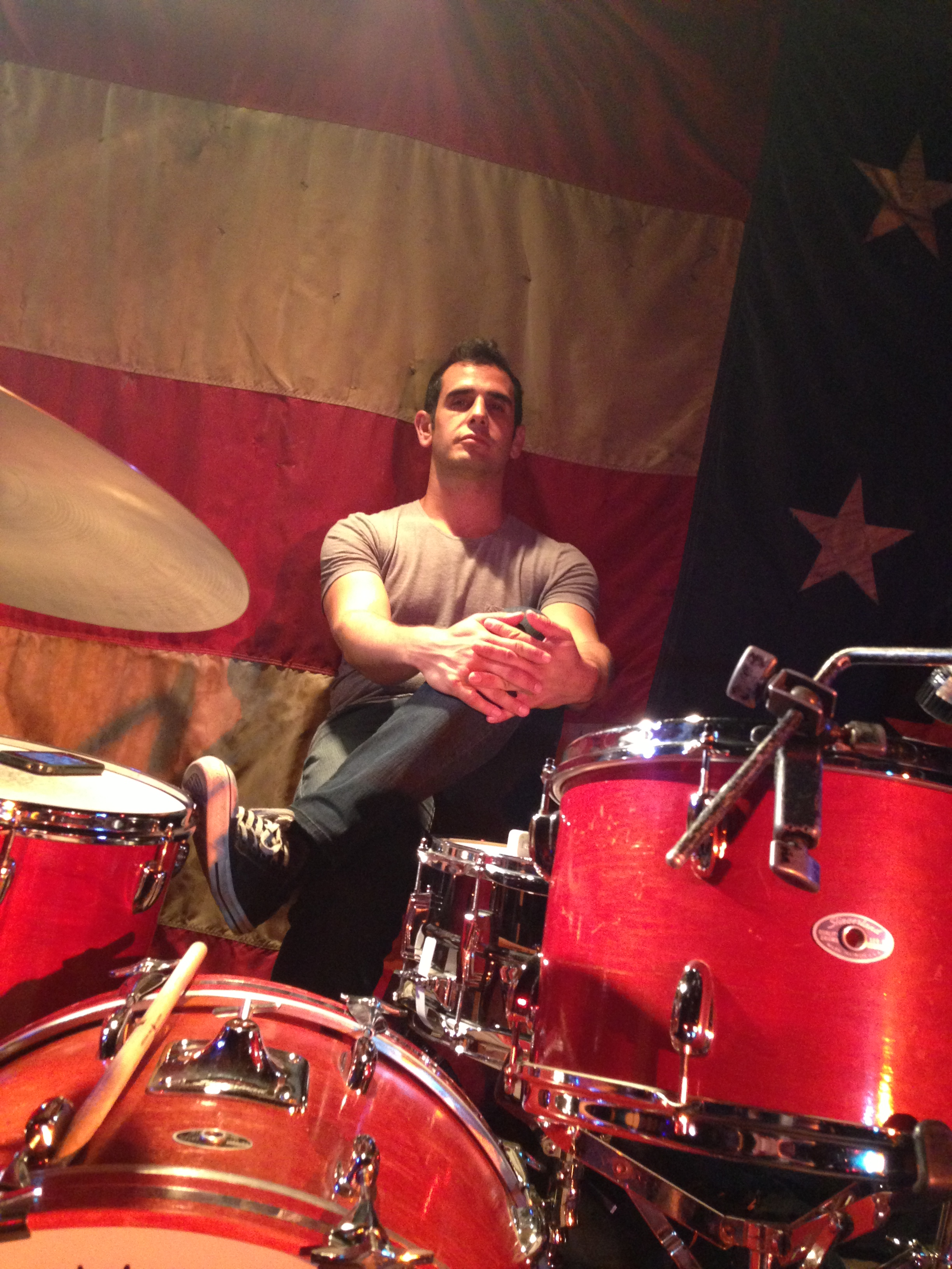 This is a photo of drummer Paul Amorese, in NYC, in 2013.